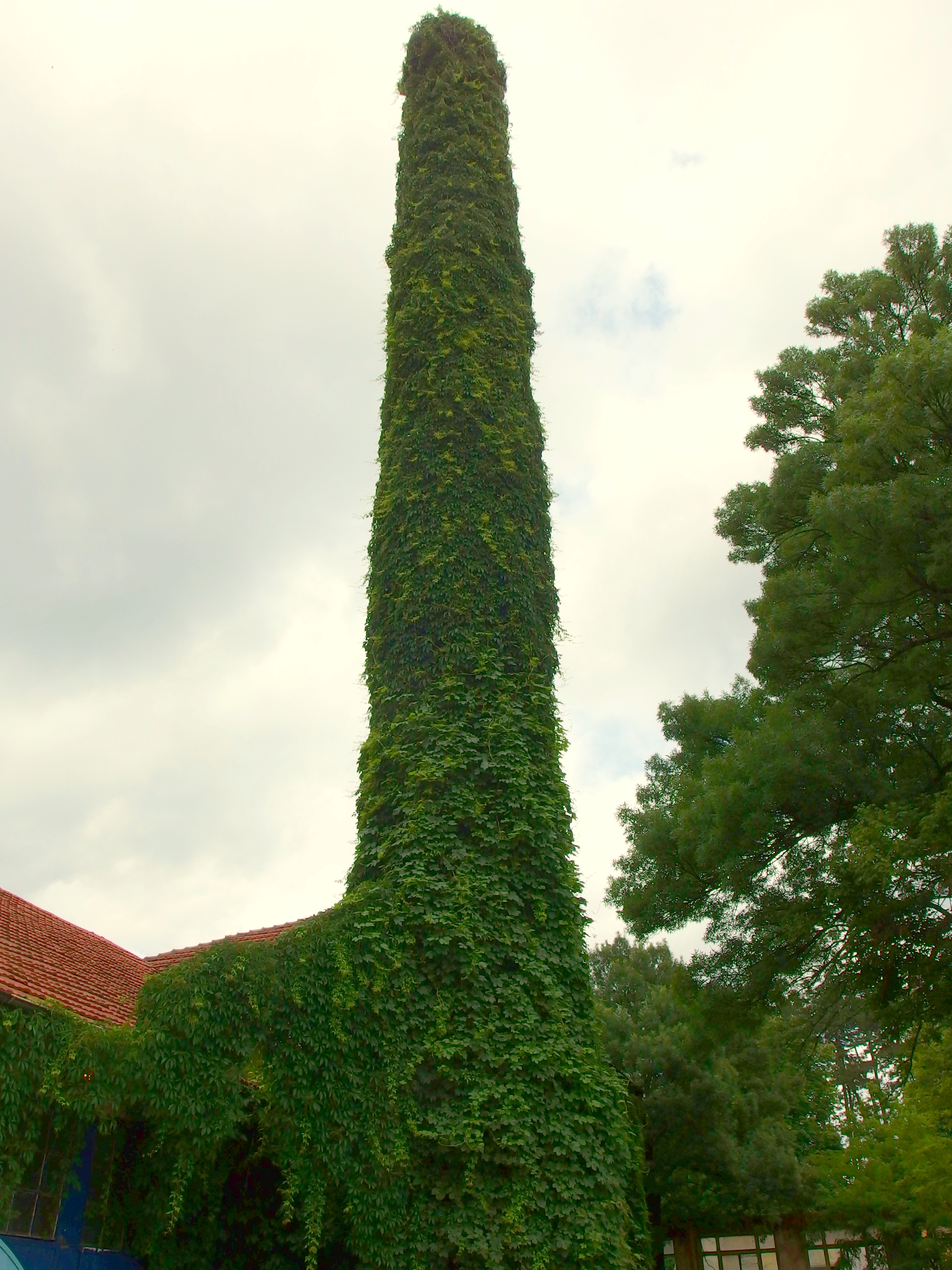 2014-06-20 in Veliko Tarnovo.